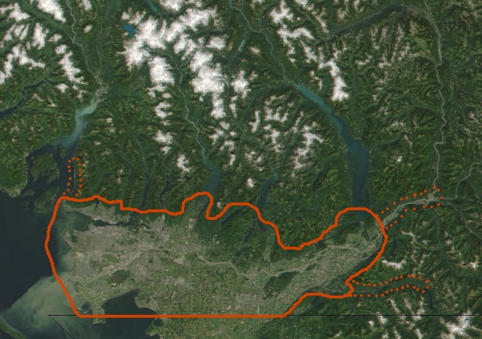 The Lower Mainland of British Columbia is outlined in red, with the dotted lines indicating adjoining settled areas which may be included but are not in the usual historical definition. This boundary does not coincide with various government administrative districts which use Lower Mainland in their titles.